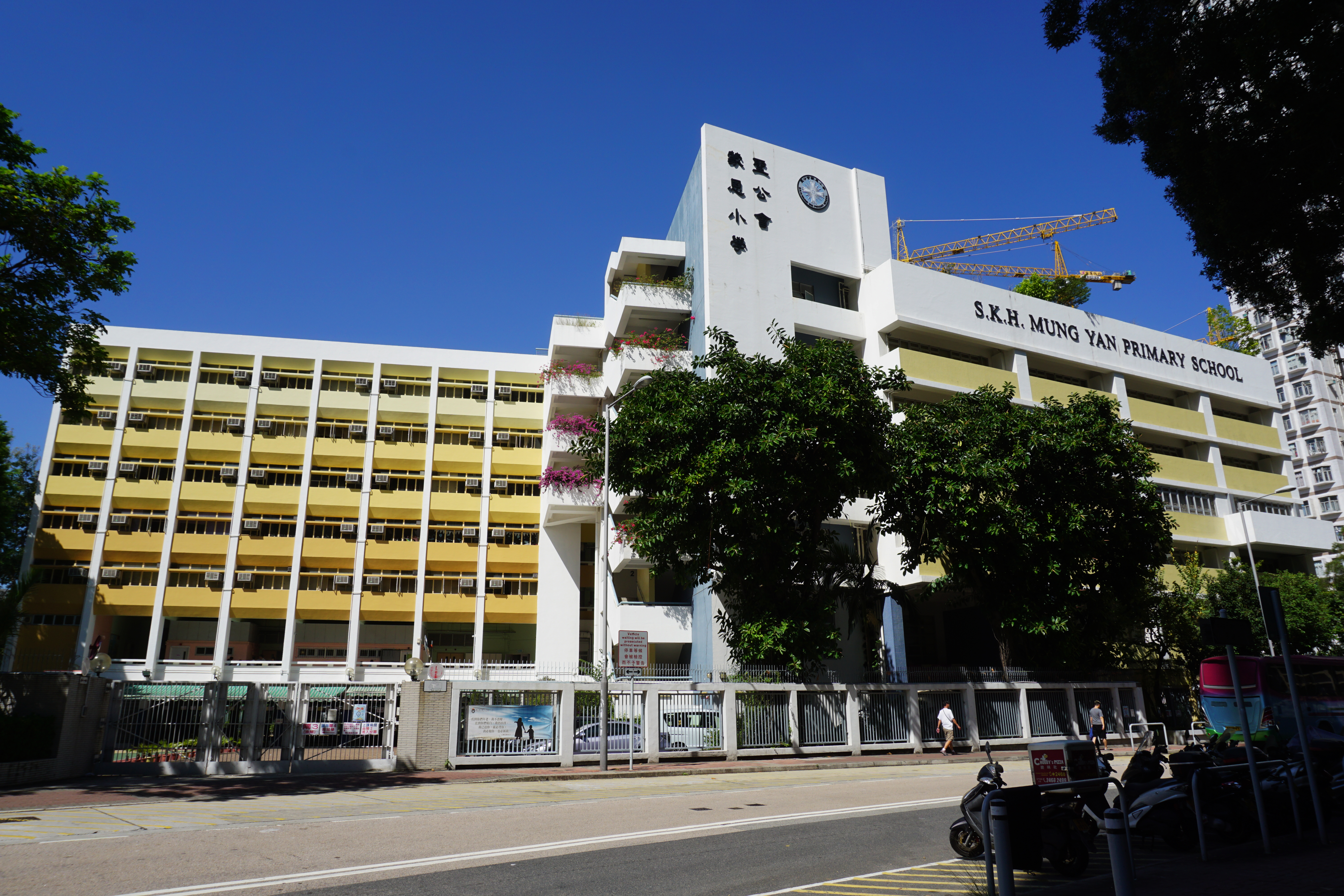 S.K.H. Mung Yan Primary School in Tuen Mun, Hong Kong.